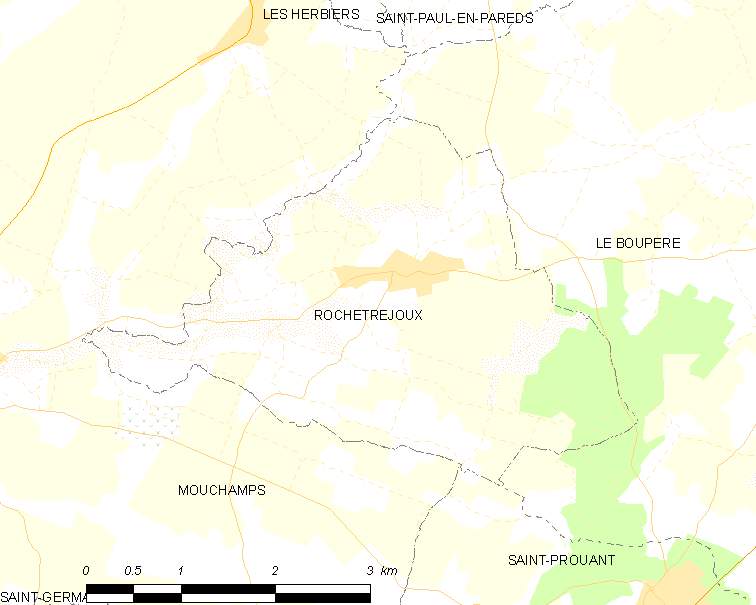 Map of French municipality Rochetrejoux